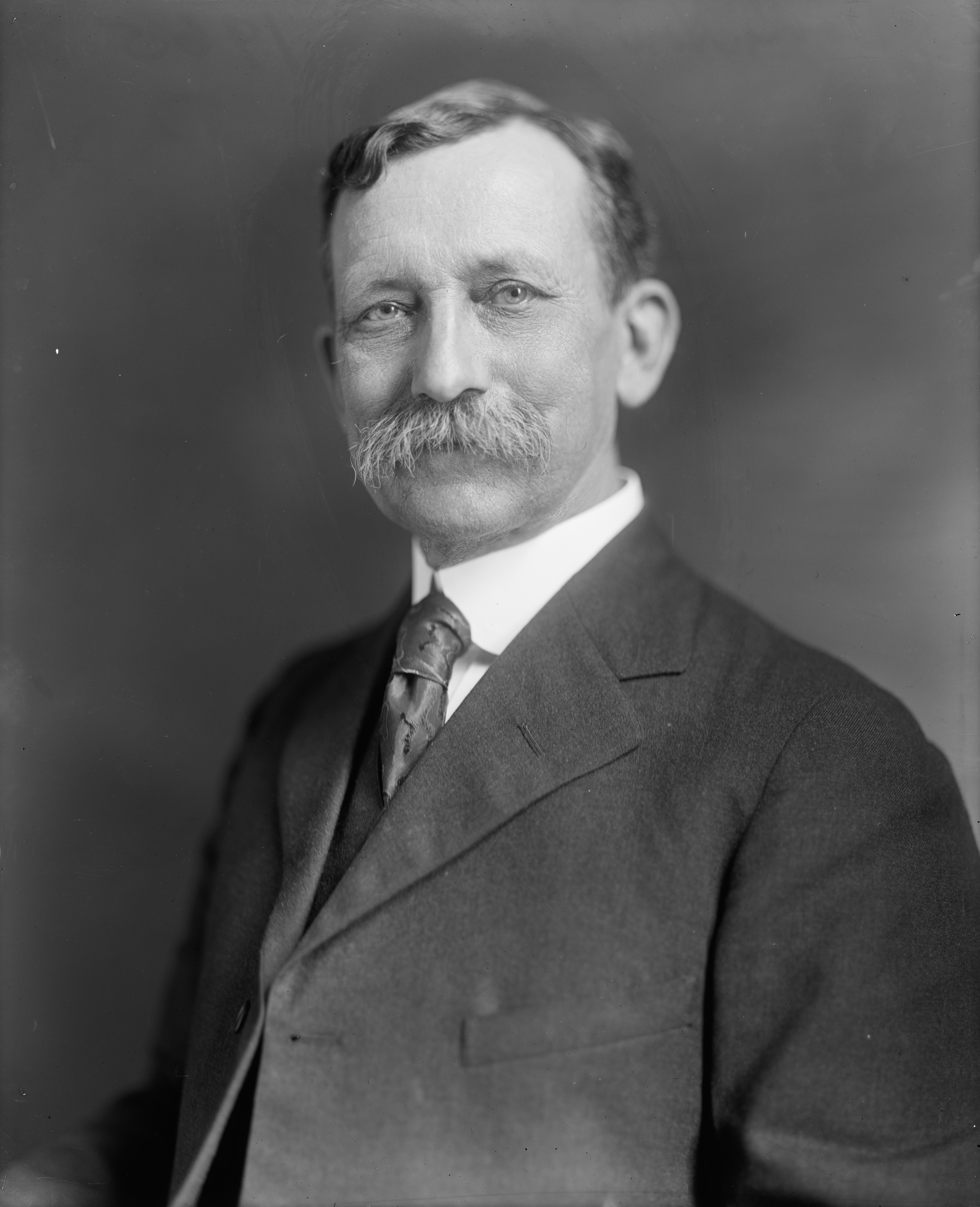 Horatio C. Claypool, congressman from Chillicothe, Ohio.